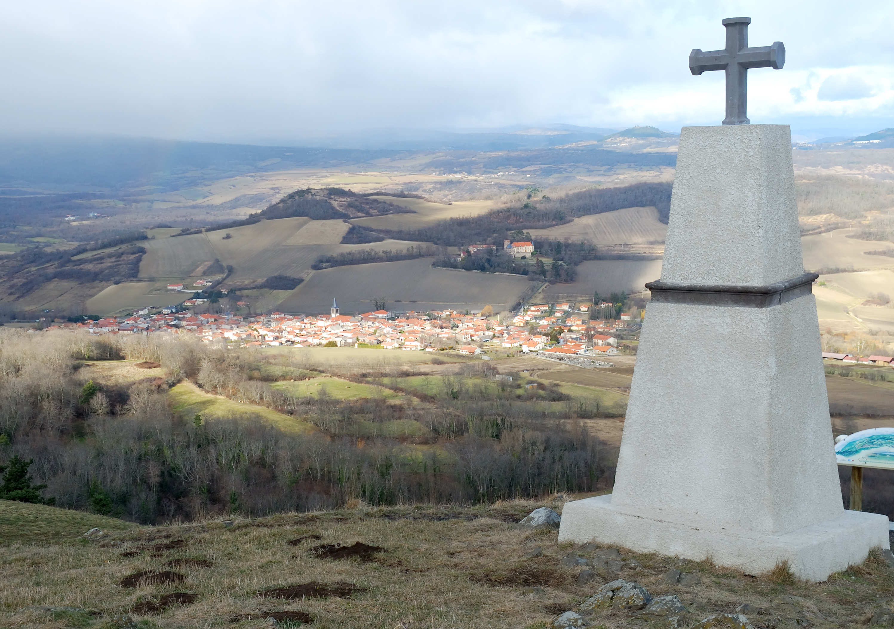 Saint-Sandoux: general view from the Puy de saint-Sandoux, 848 m (Puy-de-Dôme, France).